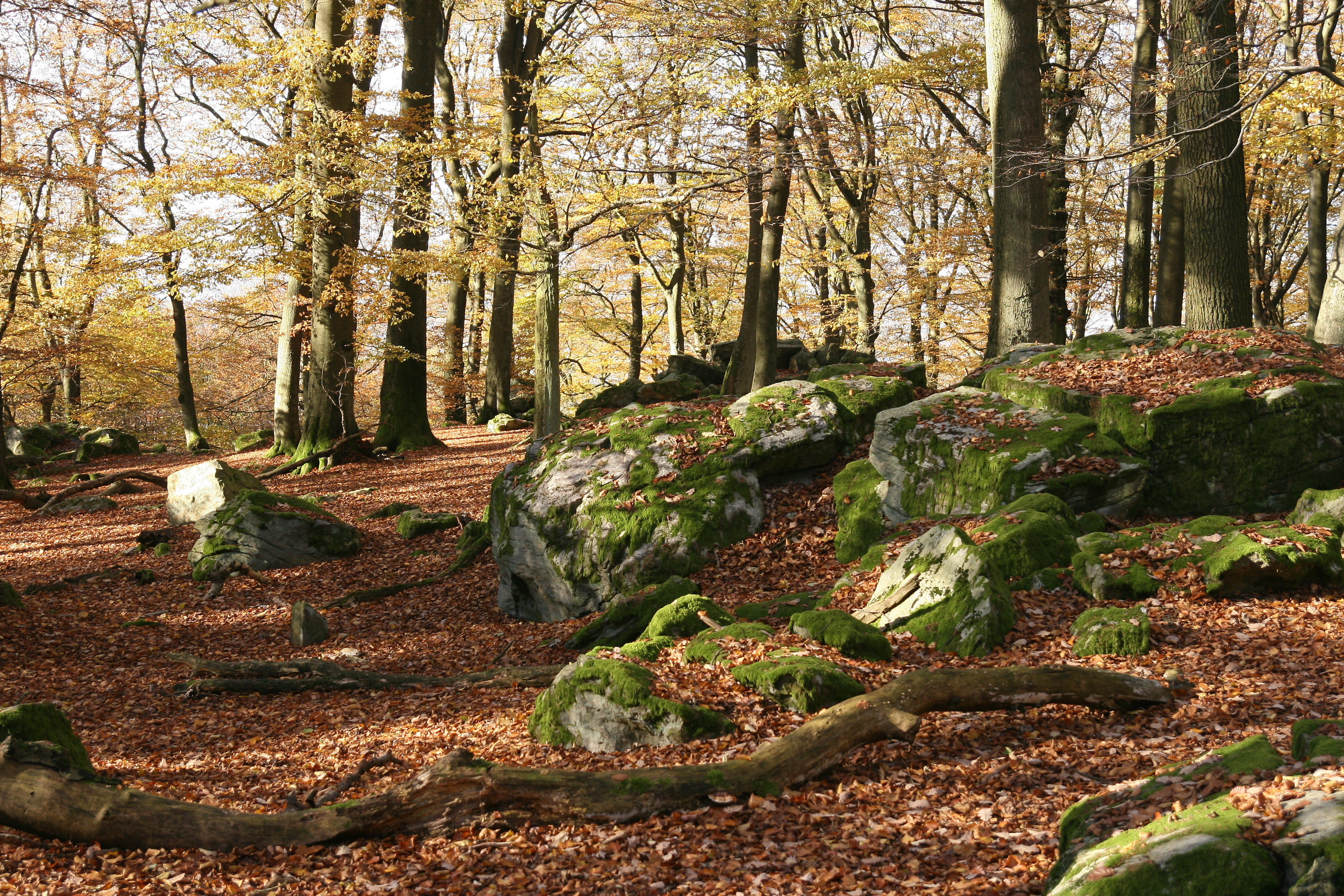 Malberg mountain top with rocks and beeches. Part of a nature reserve in Westerwaldkreis, Germany